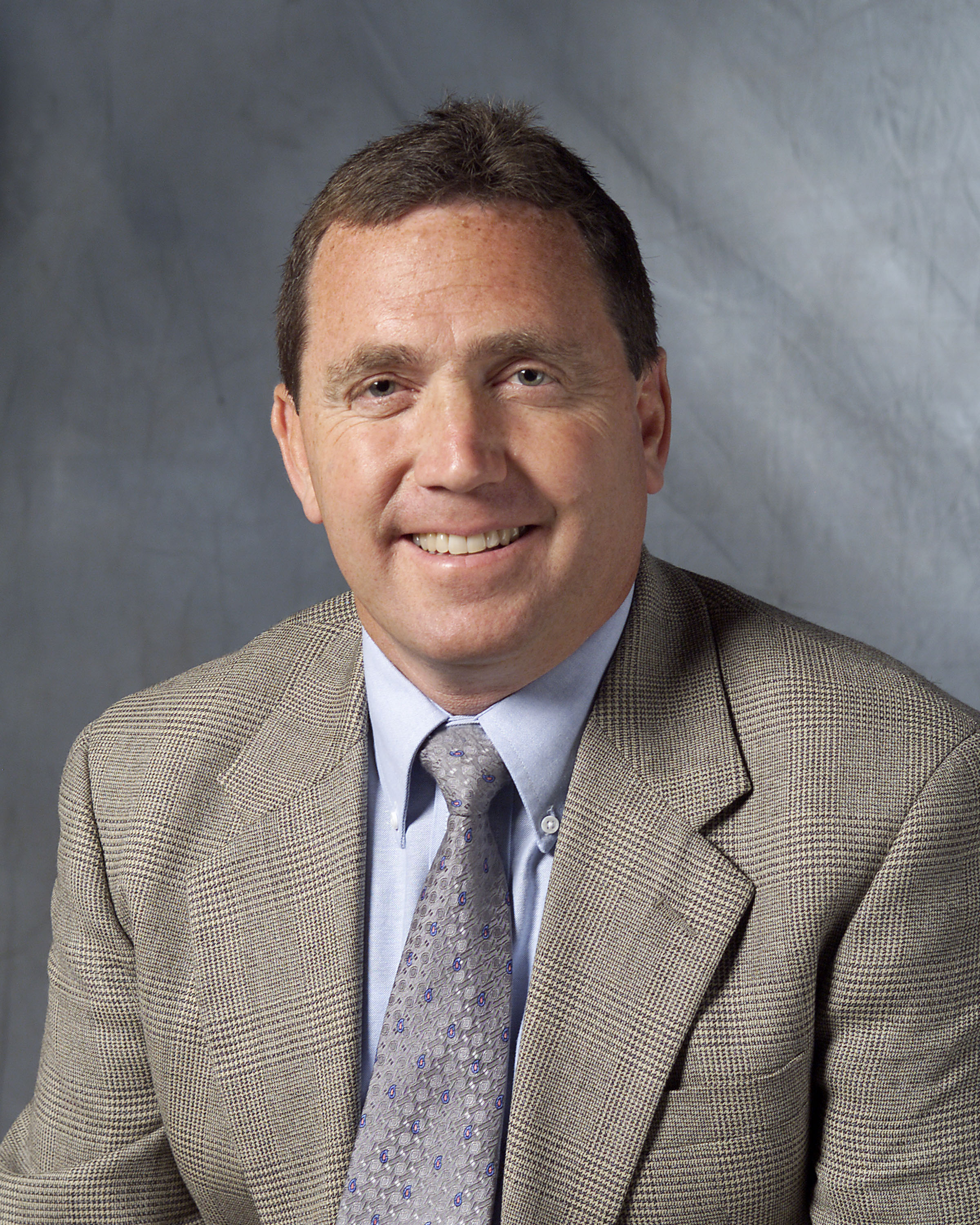 Ben Santer Portrait for LLNL Annual Report